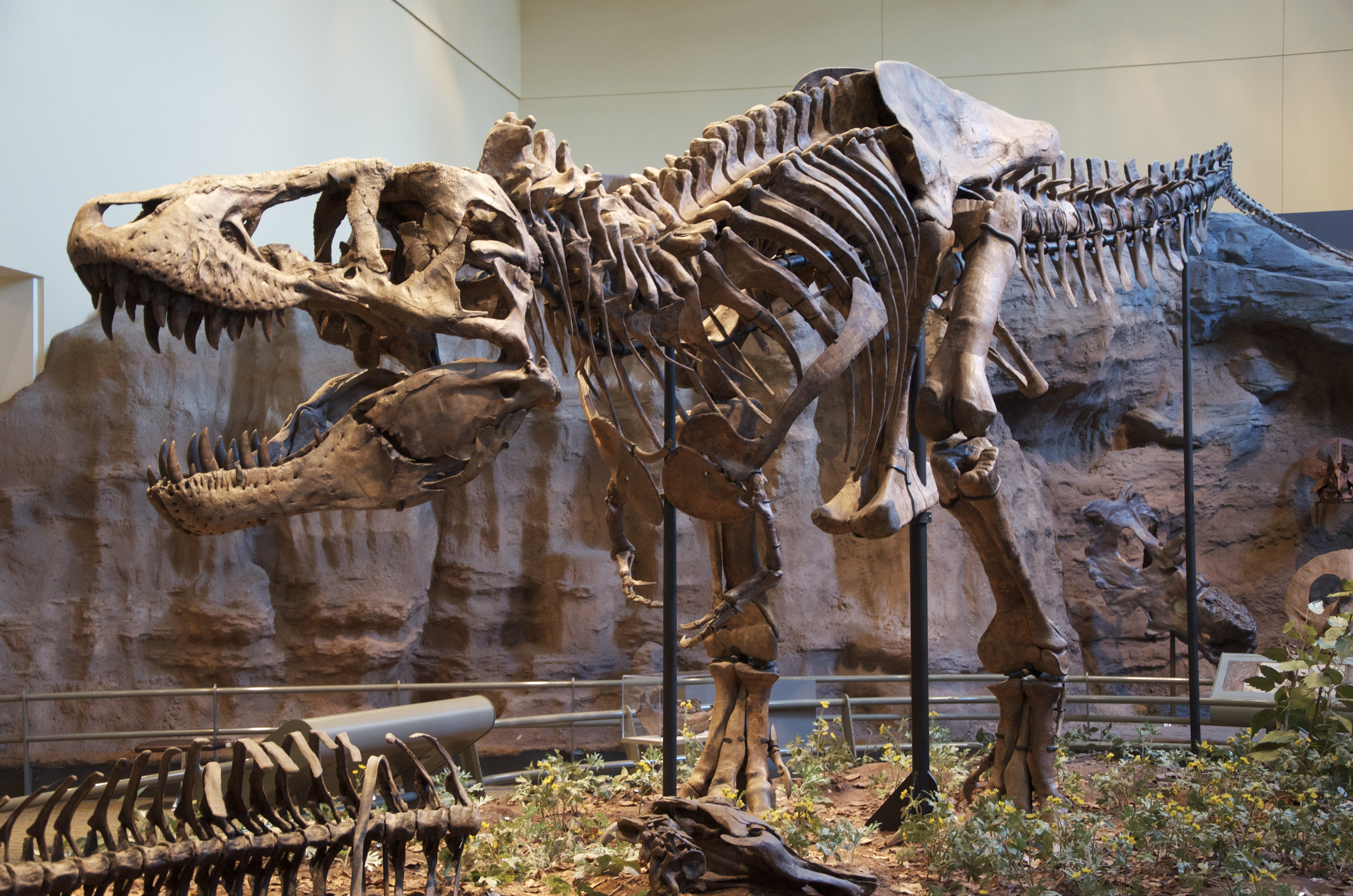 Tyrannosaurus rex holotype specimen at the Carnegie Museum of Natural History, Pittsburgh.